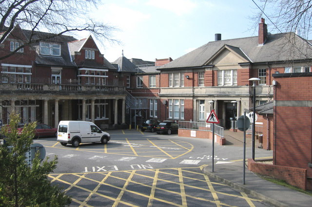 Caerphilly Miners Hospital Caerphilly District Miners Hospital is located on Watford Road and is part of Gwent Healthcare NHS Trust